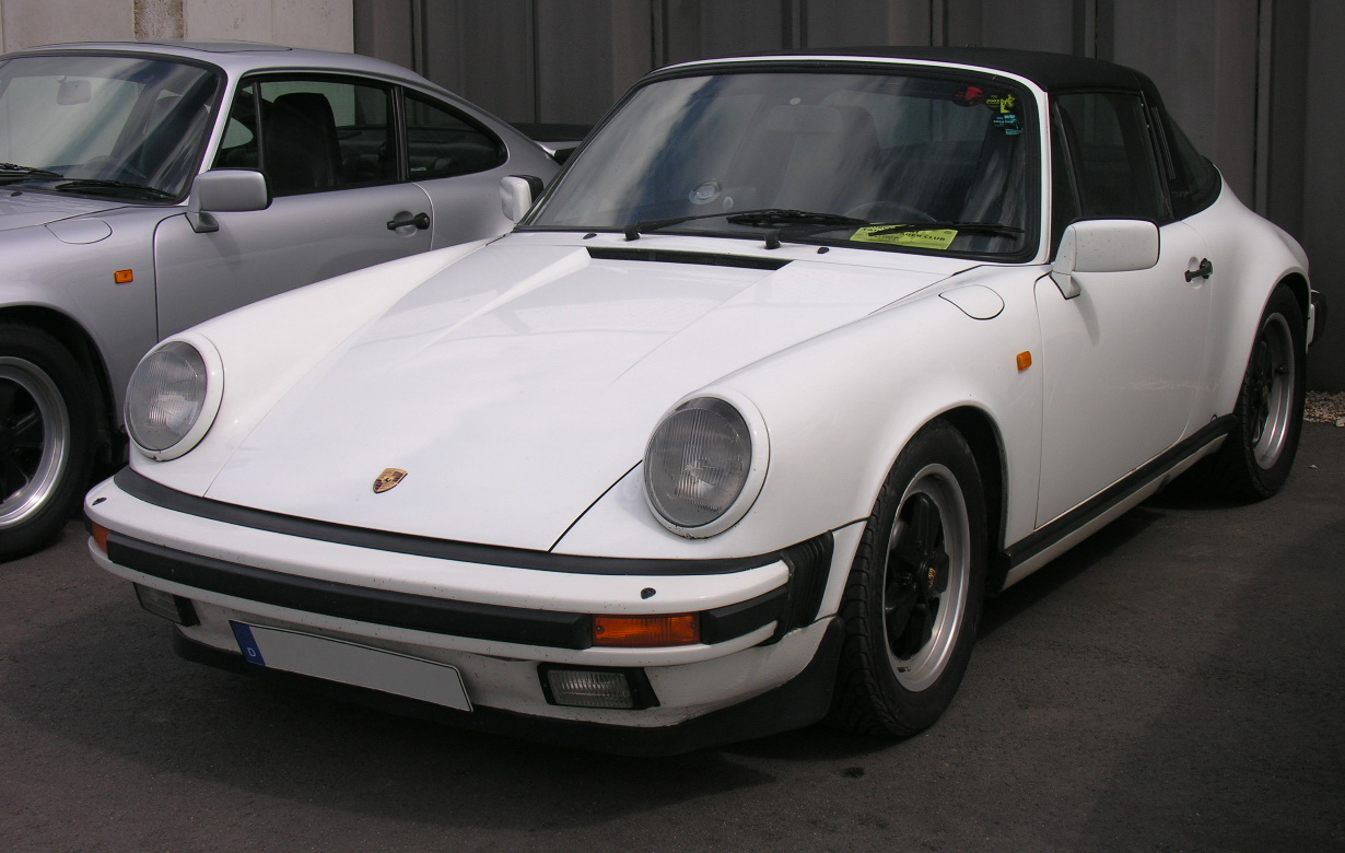 White Porsche 911 Carrera 3,2 l Targa. Photo taken on Nürburgring.